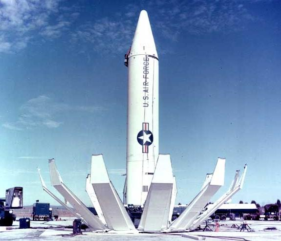 A PGM-19A Jupiter missile on its silo.